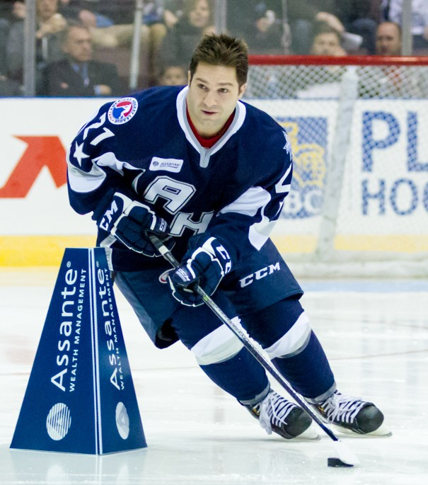 Cropped photo of ice hockey player Joe Whitney.